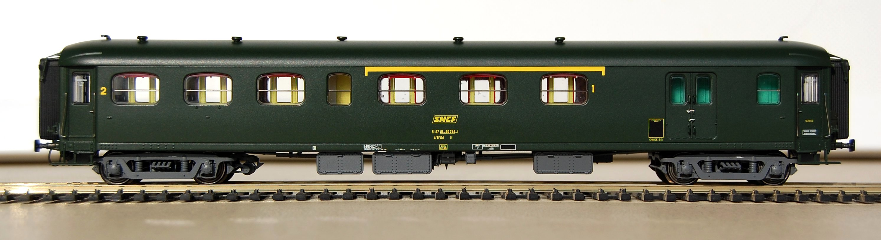 Rapide Nord A3B3Dd coach of the SNCF; HO scale model by LS Models, ref. 40193.